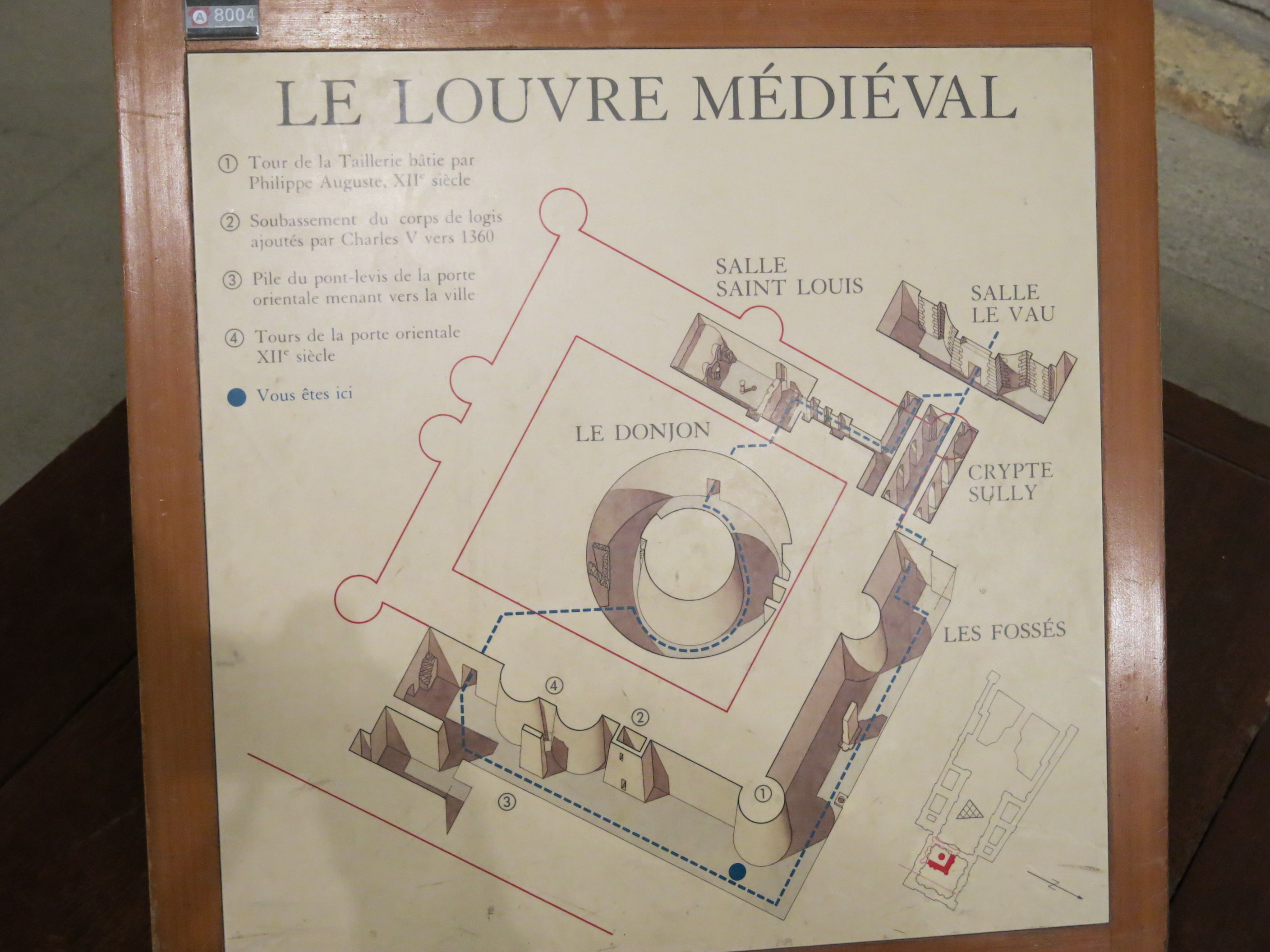 Map of the medieval Louvre (Paris, France). The Seine river are at the top and the left, on the side of the wall in red (because destroyed) with two central towers.